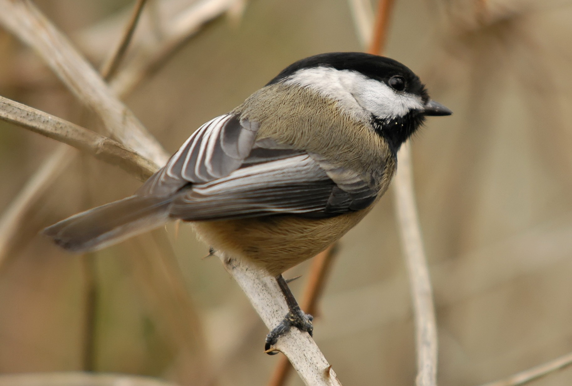 Poecile atricapillus, Boundary Bay, BC